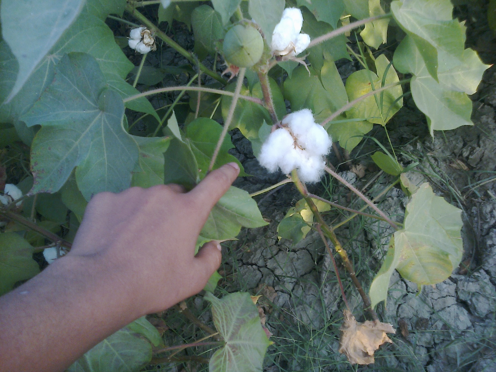 Shamil Syed showing cotton On Plant In Bukhari Farms